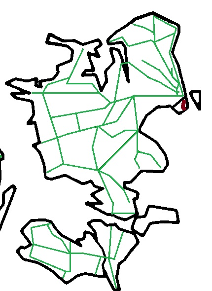 Map of railways on Zealand in Denmark with the private railway Amagerbanen in brown.